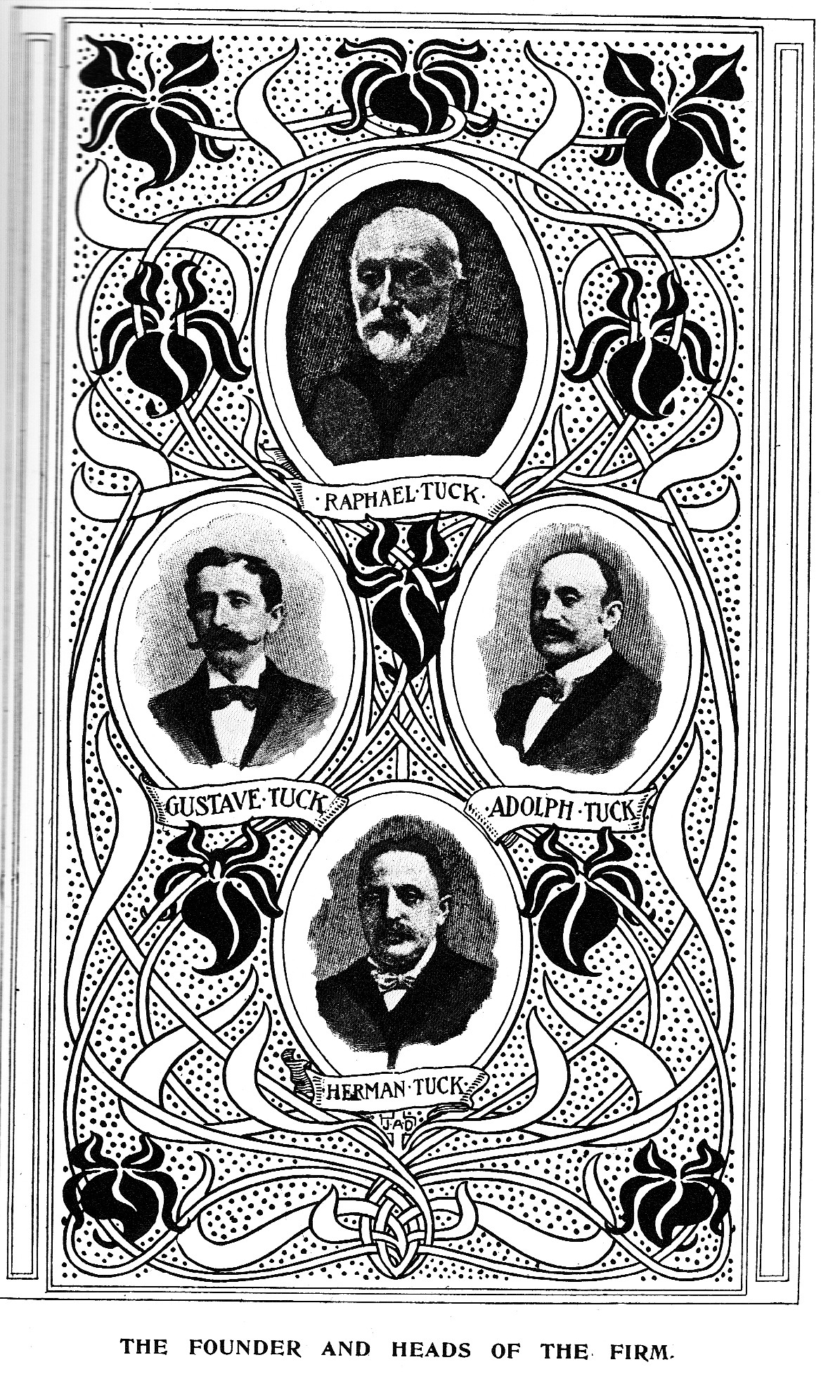 The founder and heads of the firm Raphael Tuck & Sons